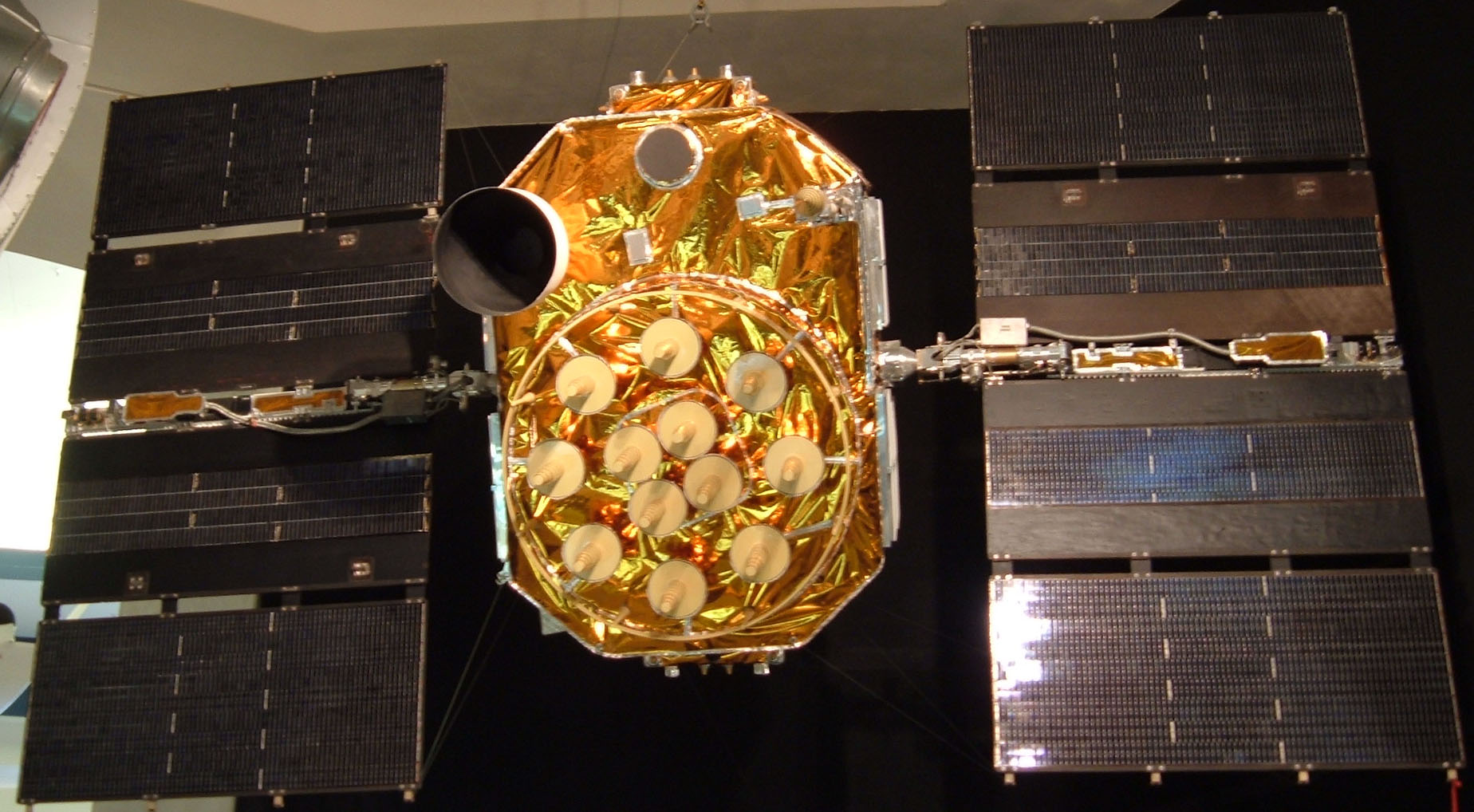 Unlaunched GPS block II-A, the only satellite on public display at the San Diego Aerospace Museum.